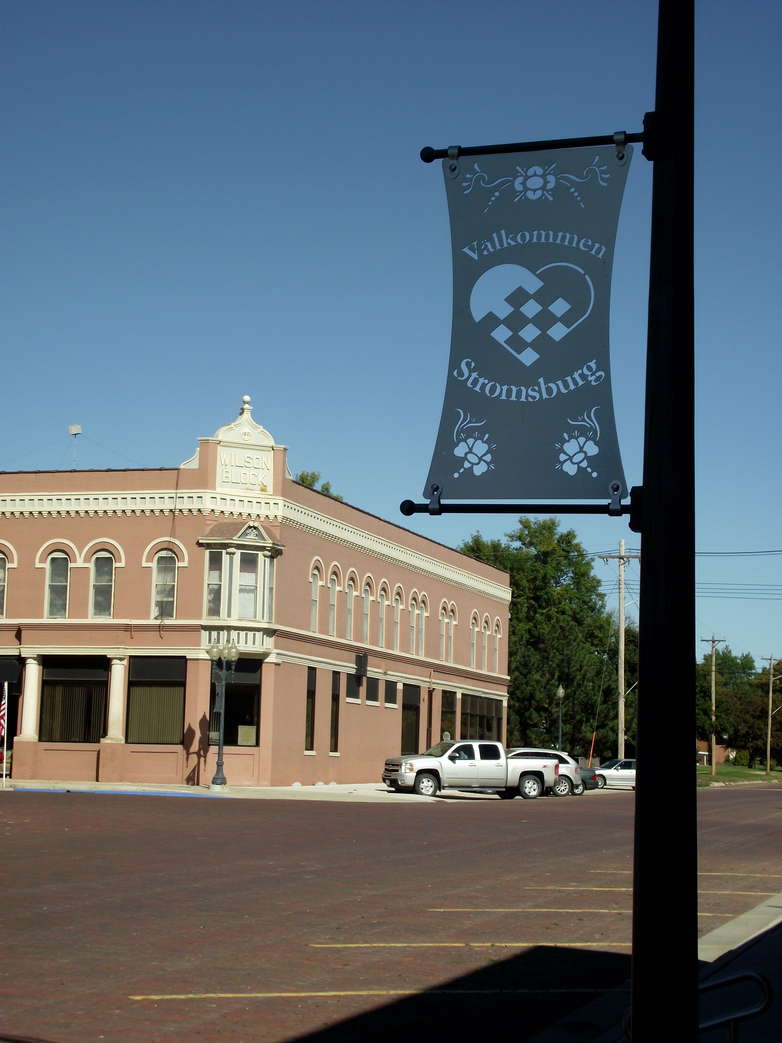 Stromsburg brick street and Valkommen sign